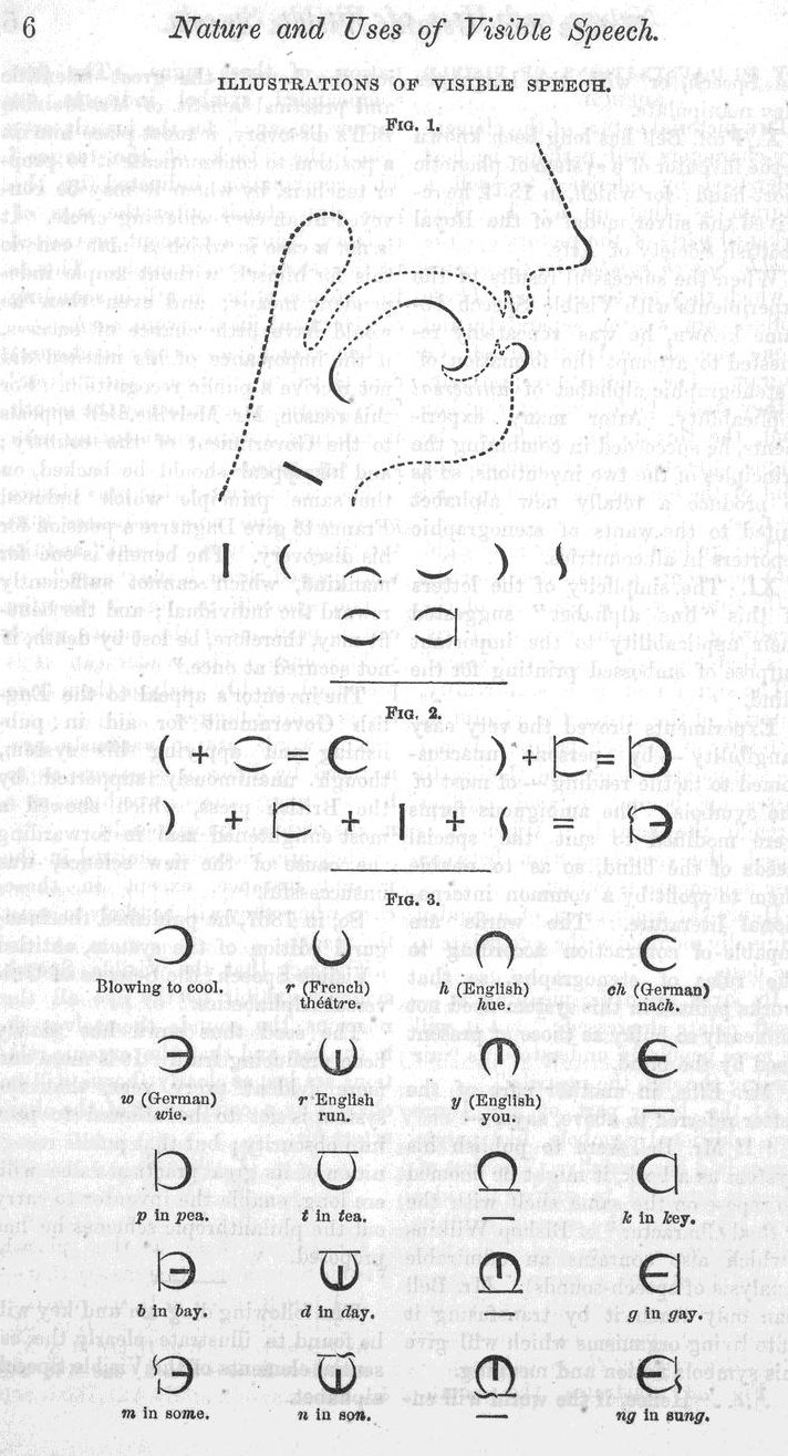 page 6 of On the Nature and Uses of Visible Speech